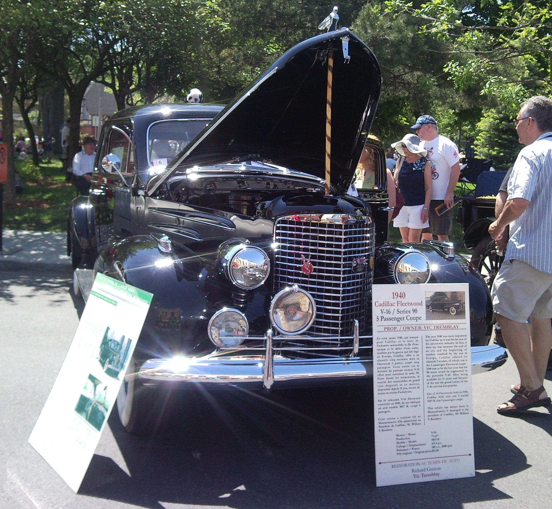 1940 Cadillac Fleetwood V16 Series 90 5-passenger coupé photographed in St. Lambert, Quebec, Canada at Auto classique VAQ St-Lambert 2012.